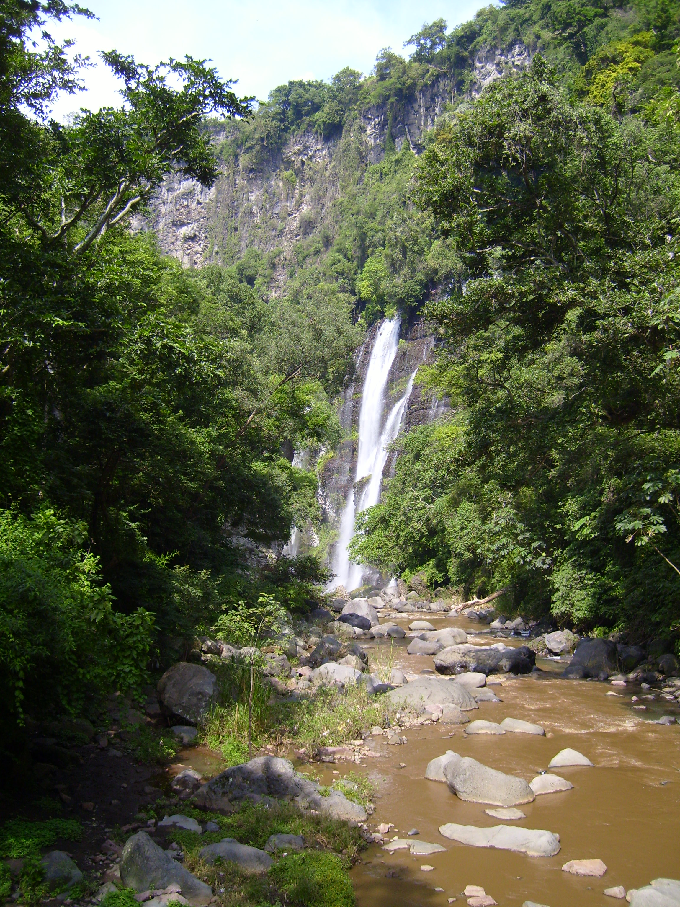 Chorros del Varal, Los Reyes, Michoacán